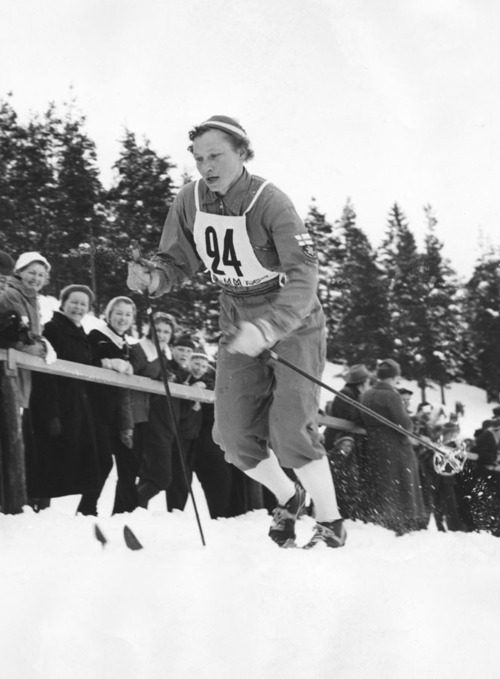 Siiri Rantanen at the 1958 World Championships in Lahti